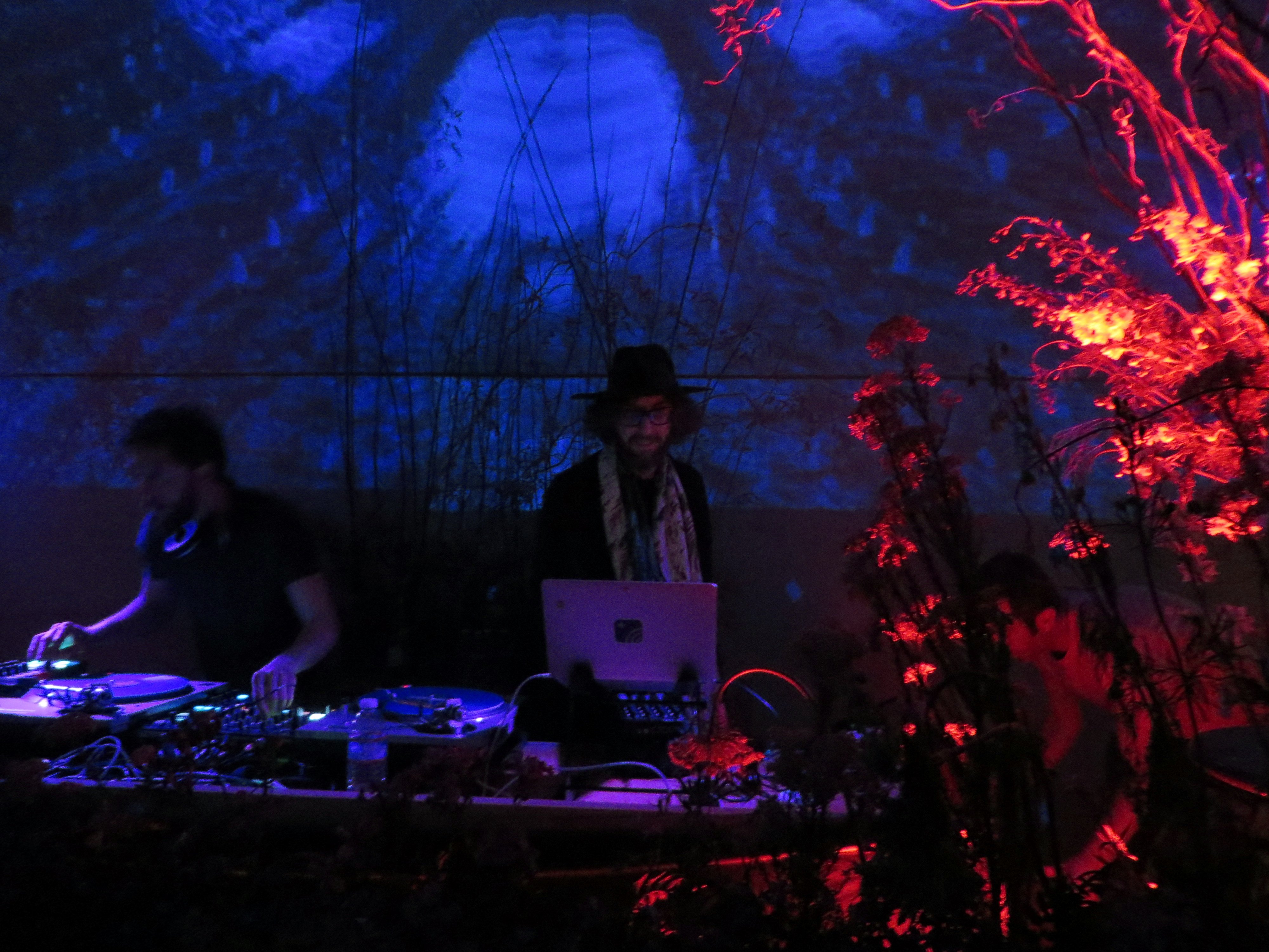 Damian Scrounger and Acid Pauli (Martin Gretschmann) at the Public Works, San Francisco CA.